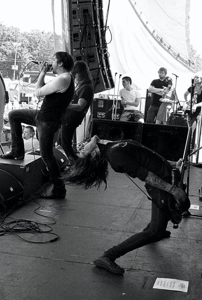 Norma Jean on Warped Tour 2008. Photo by Rachel Rodemann